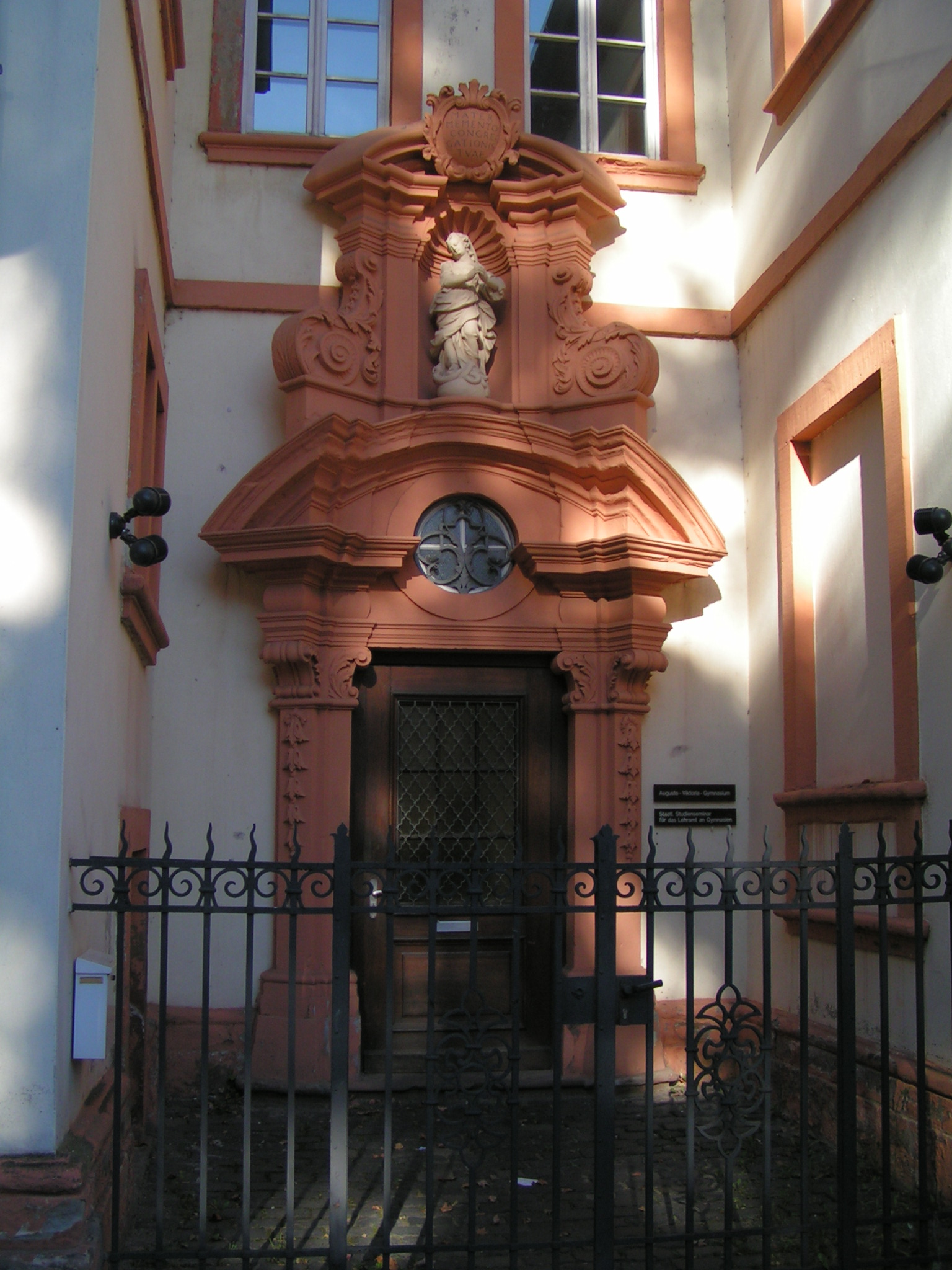 Welschnonnen Monastery, Trier, Germany